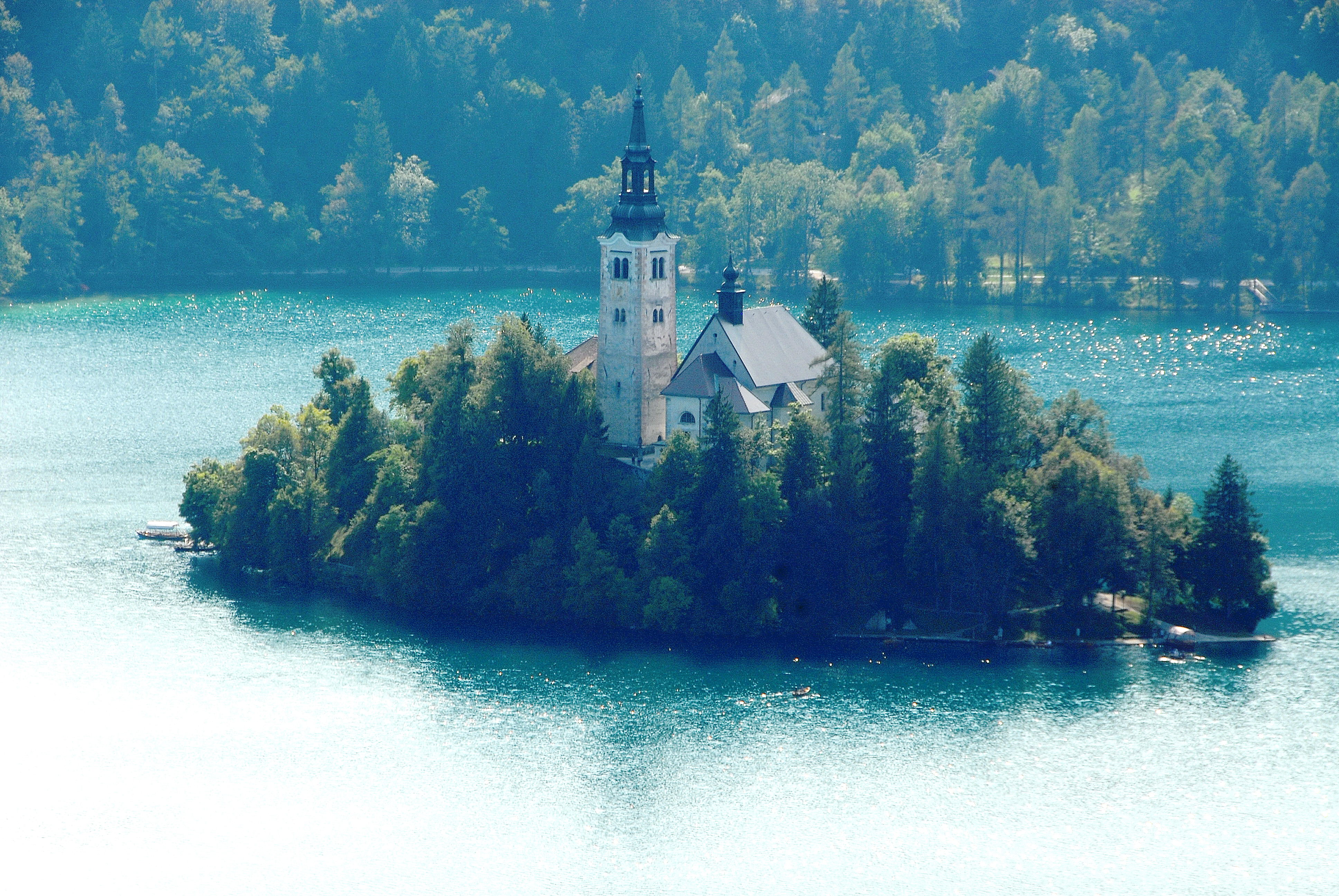 Church of Mary on the island in the Lake Bled, Bled, Slovenia